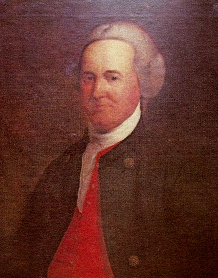 Portrait of Richard Richardson, brigadier general